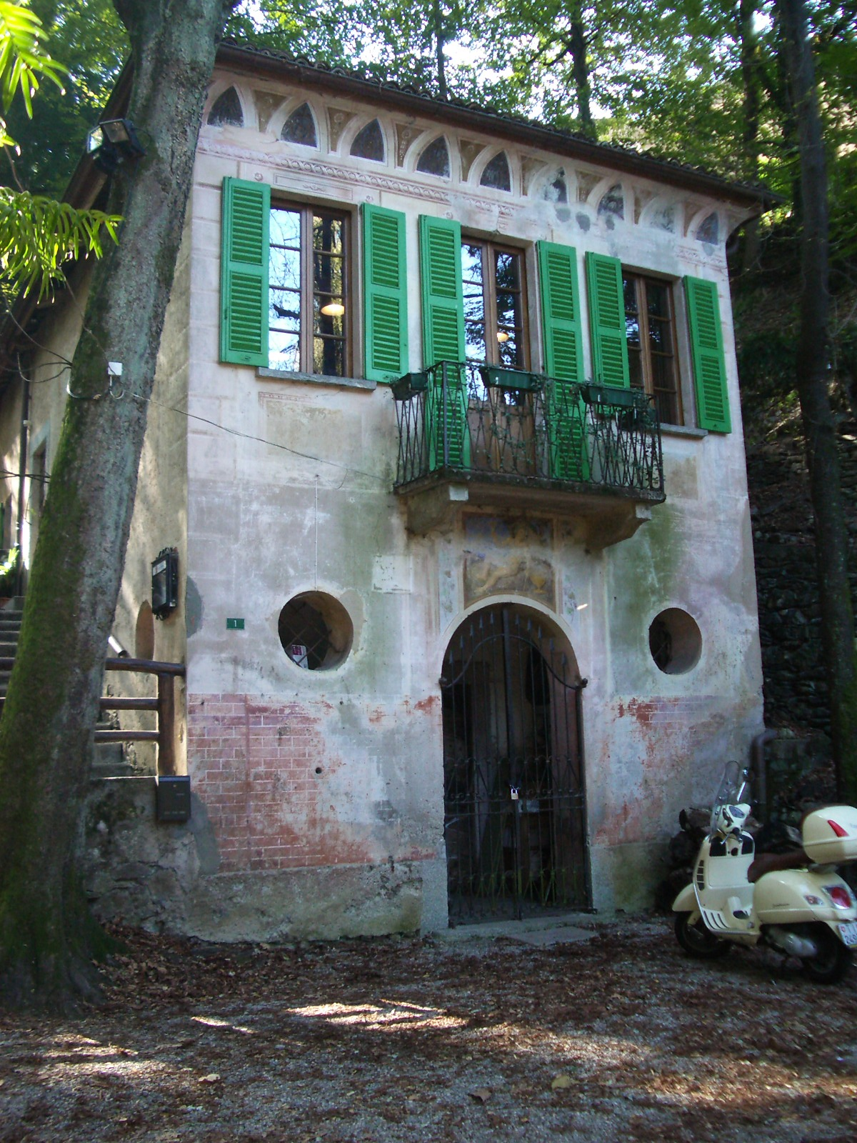 Pazzallo, Lugano TI, Switzerland